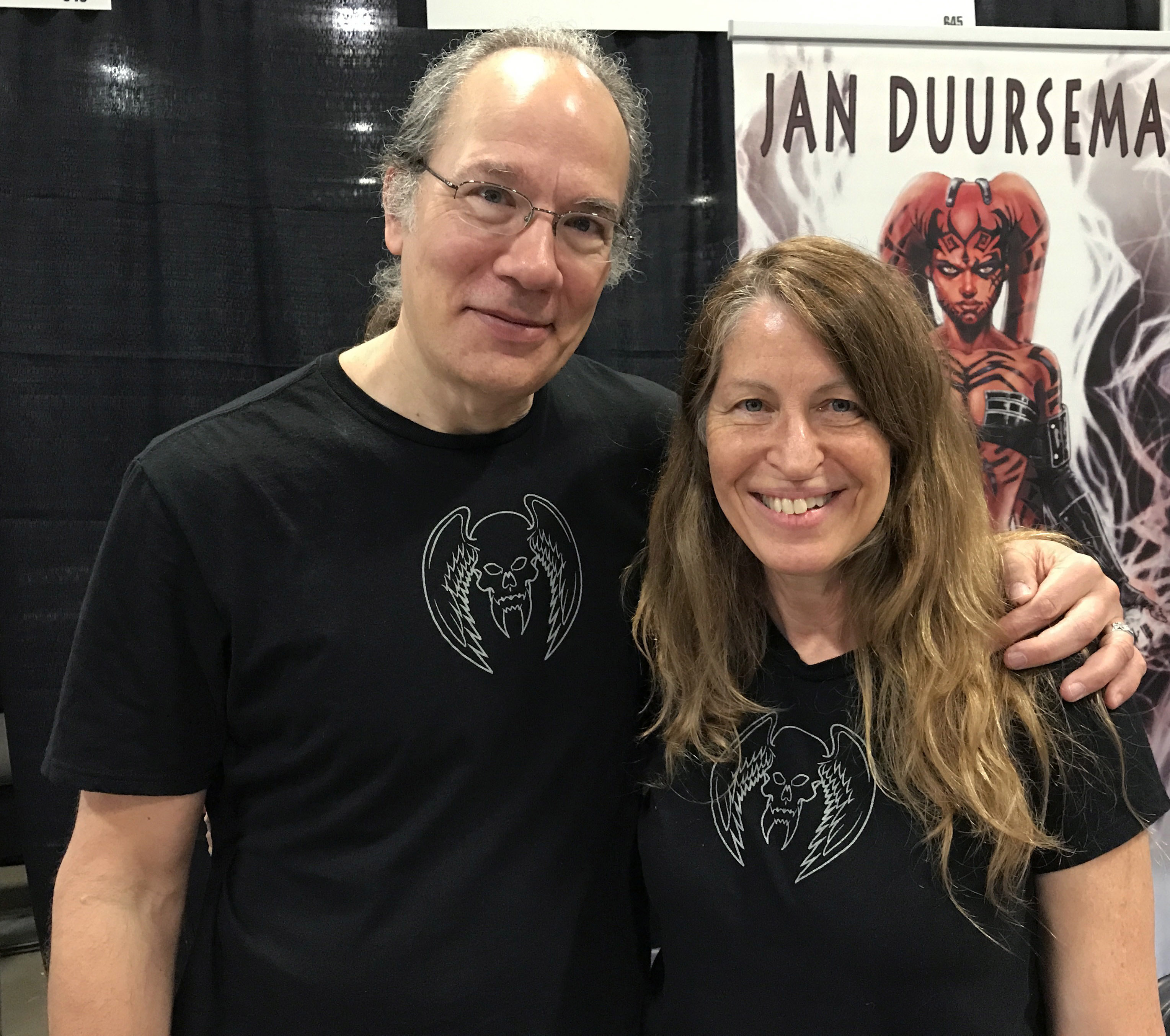 Husband and wife Comic book artists Tom Mandrake and Jan Duursema at the Meadowlands Exposition Center in Secaucus, New Jersey on Saturday, April 29, 2017, Day 1 of the East Coast Comicon. This photo was created by Luigi Novi. It is not in the public domain, and use of this file outside of the licensing terms is a copyright violation.